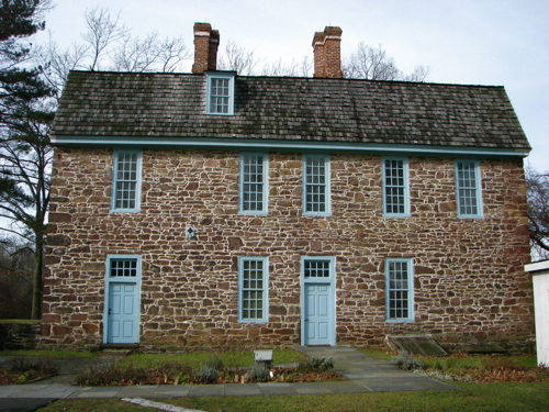 Photo of a colonial home, known as the Keith House, located in Graeme Park, Horsham, Pennsylvania.